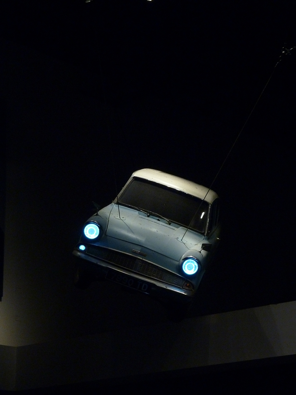 The "flying" Ford Anglia from the Harry Potter films as displayed at Leavesden studios.